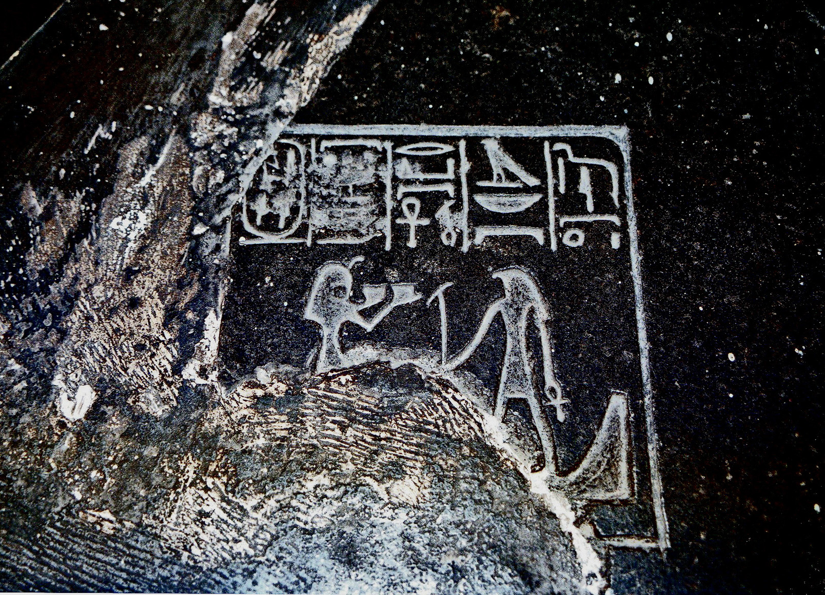 Pharaoh Merneferre Ay of the 13th dynasty, on a boat, ministering before the god Horus, "Lord of heaven". Scene from his pyramidion, originally from Memphis, but found in Khatana. Now, Cairo. Egyptian Museum, JE 43267. Bibliography: Habachi. ASAE 52 (1952), p. 471-479, pl. XVI-XVII.